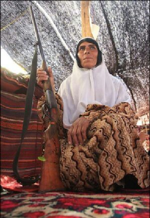 A picture of a woman from the Afshar clan on the edge of the Khabr National Park in southeastern Iran